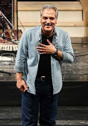 Mehran Modiri, Iranian actor at 16th Hafez Awards.